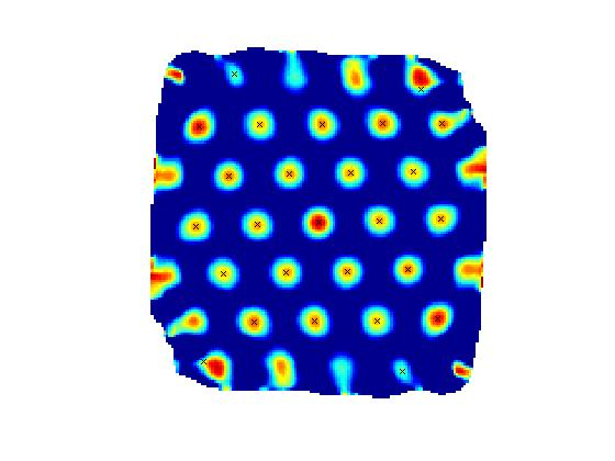 Activity of a grid cell in rat (entorhinal cortex)